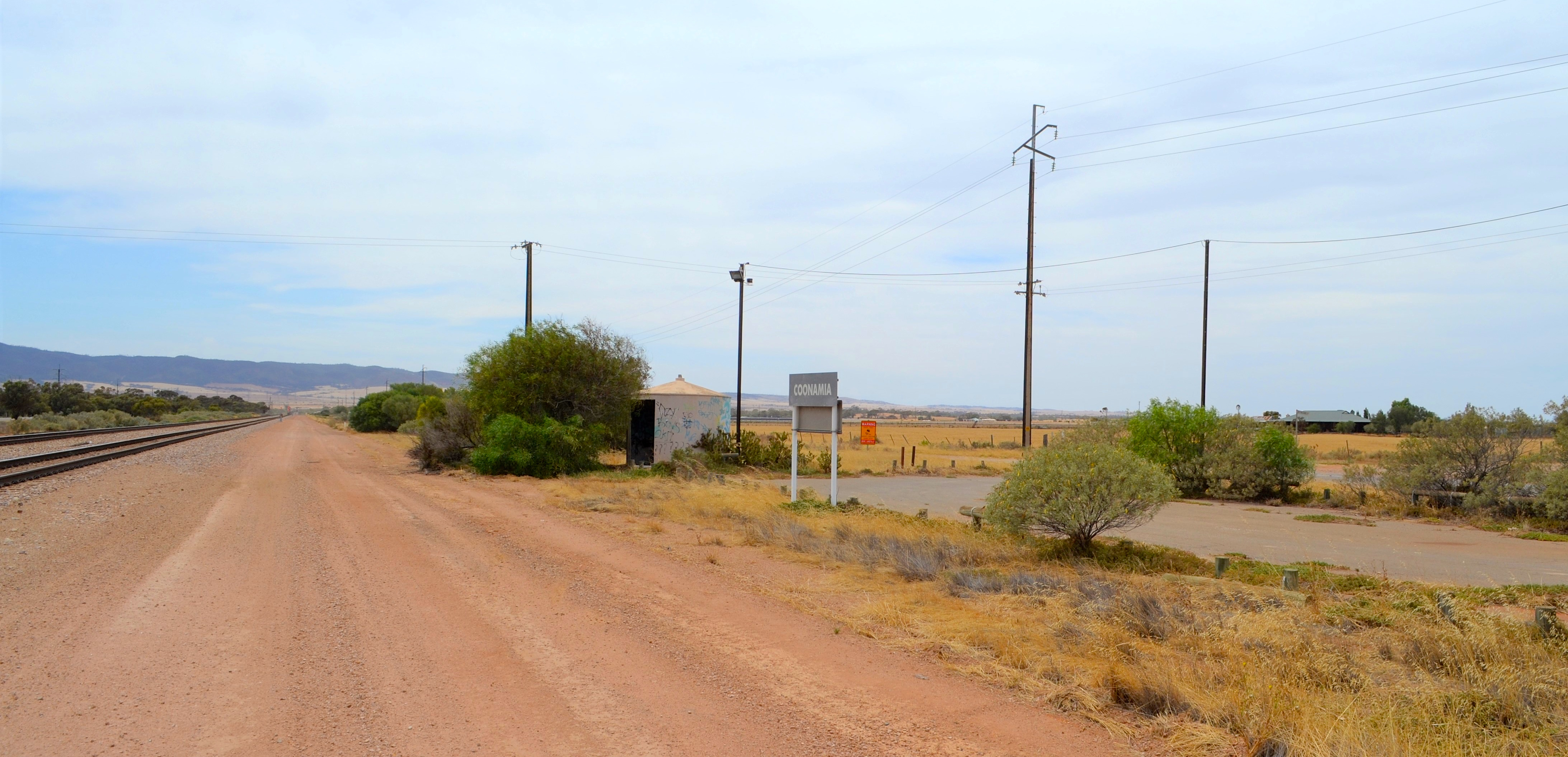 View of site of former railway stopping place at Coonamia, near Port Pirie, South Australia, in January 2020. On the left is the Adelaide – Port Augusta railway line. The small bituminised car park and its low fence are visible on the right; a "Coonamia" sign is at the centre. All other previous infrastructure has been removed after the locality ceased to be an "on request" stopping place for interstate trains in the 2010s; no trains stop there now. The circular, cone-roofed building is not related to the former stopping place; it houses railway signalling and telecommunication equipment.